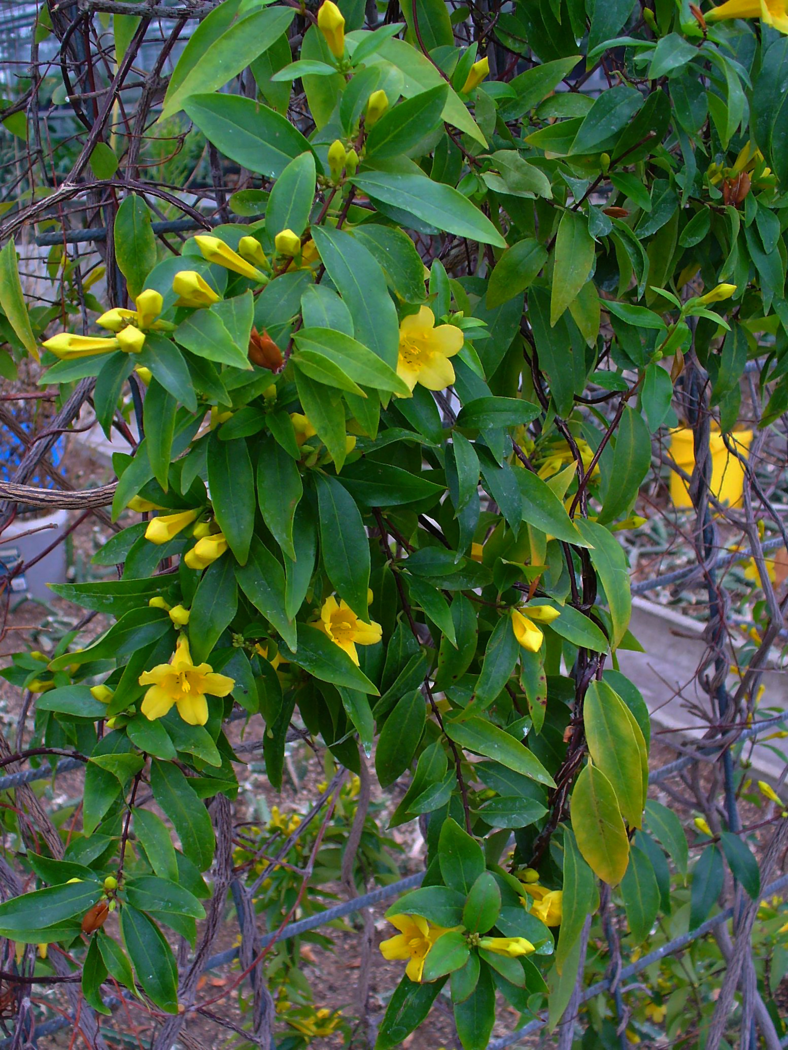 Gelsemium sempervirens, Gelsemiaceae, Yellow Jessamine, Carolina Jasmine, Evening Trumpetflower, woodbine, habitus. The fresh rootstock is used in homeopathy as remedy: Gelsemium (Gels.)